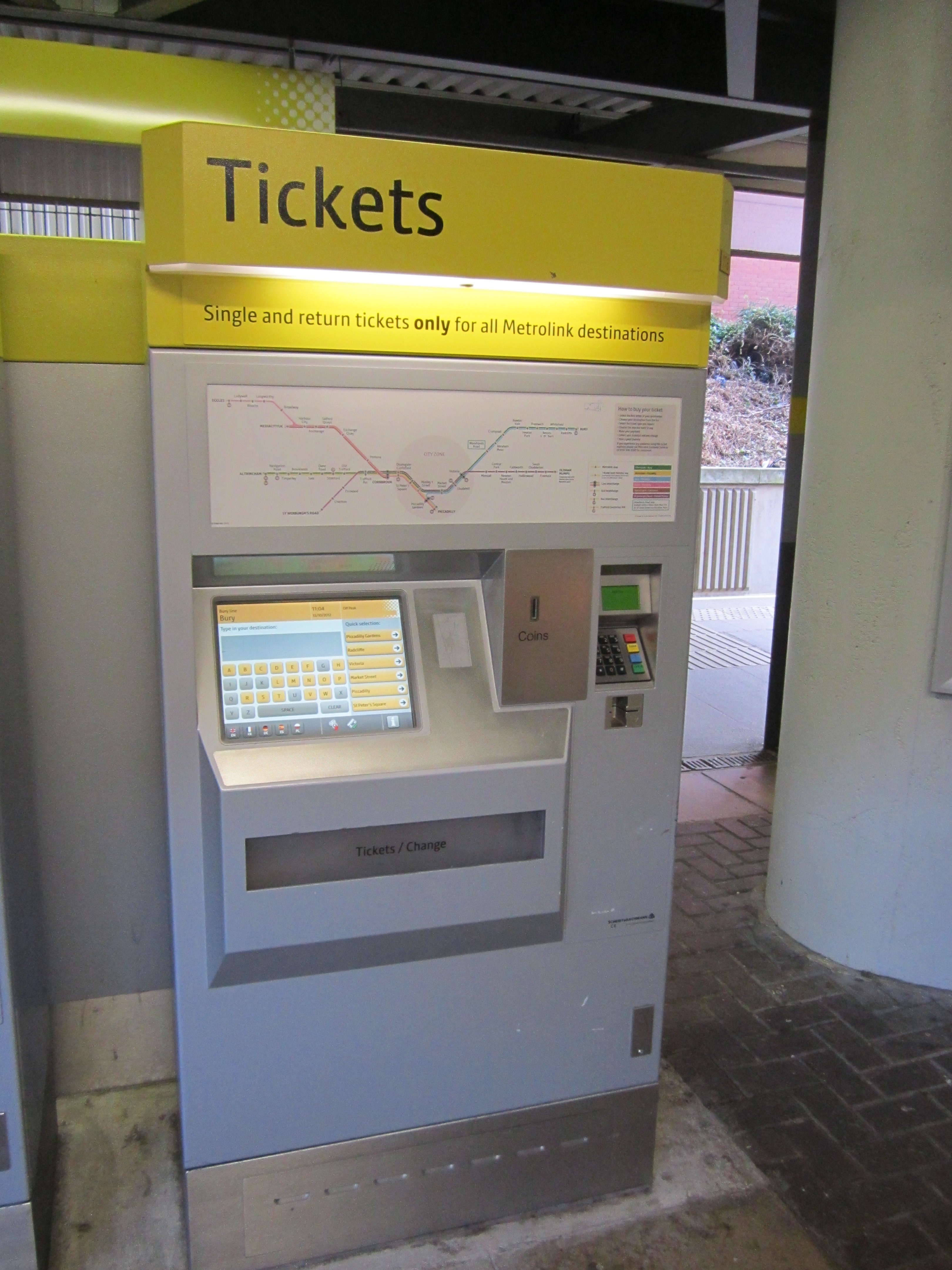 Photo taken at Bury Interchange Metrolink station, Greater Manchester, England.